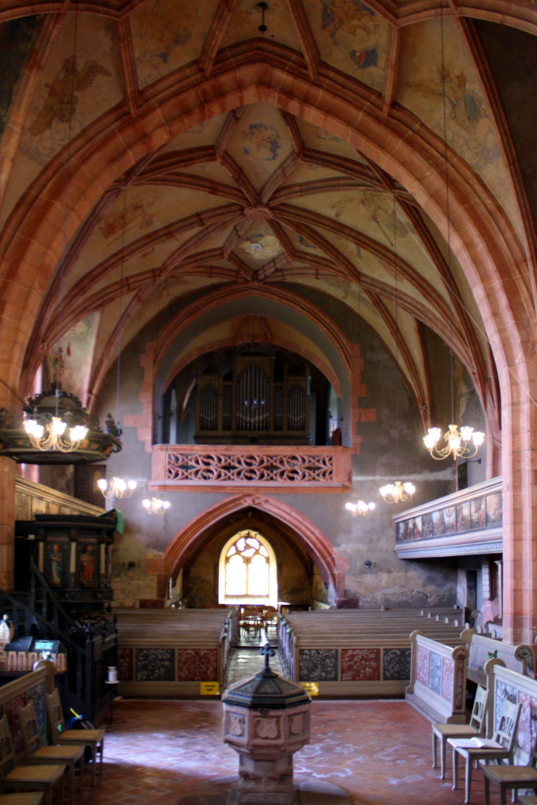 View to the organ in saint mary´s church in Ziegelheim near Altenburg/Thuringia